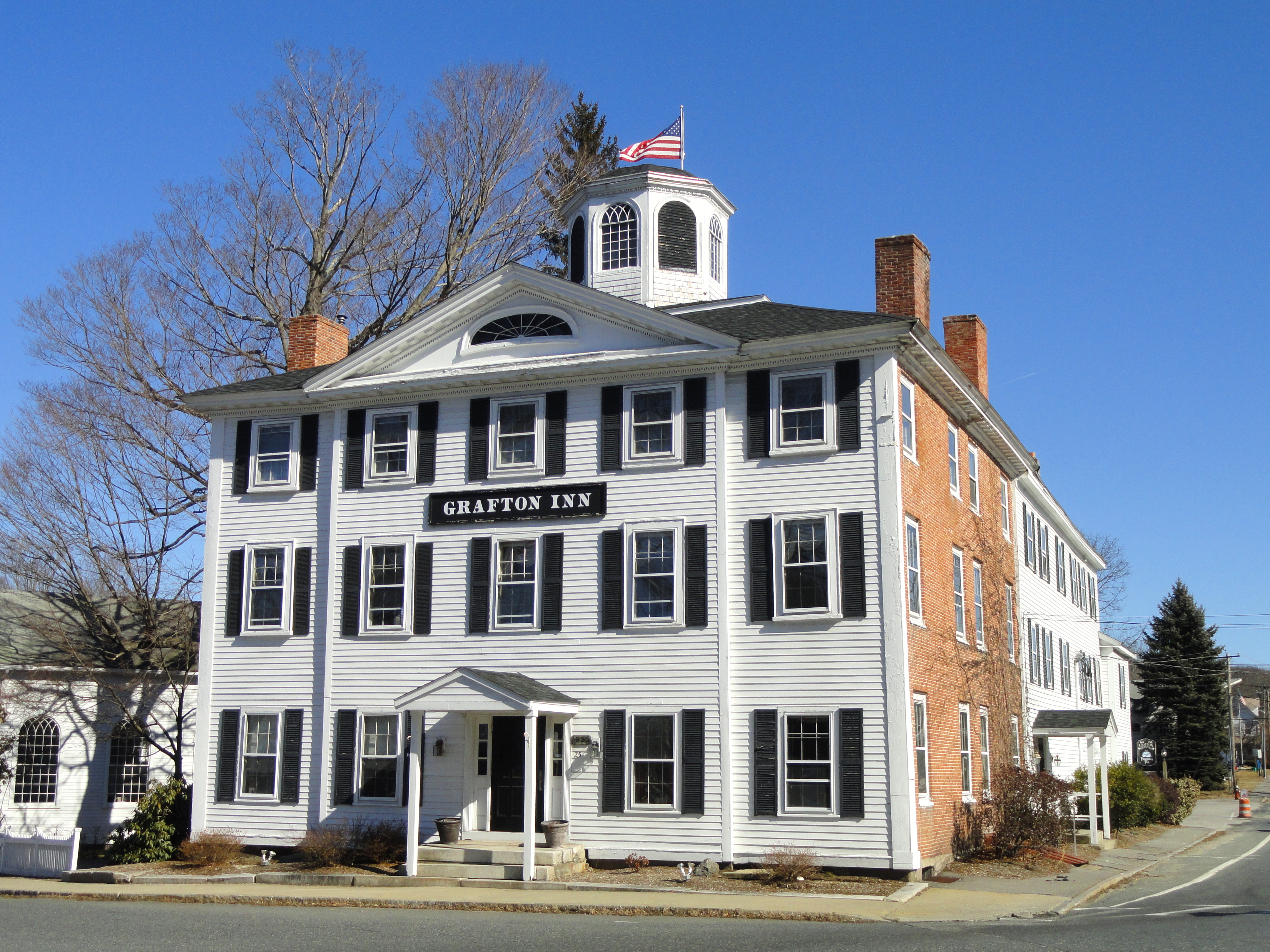 Grafton Inn, 25 Central Square, Grafton, Massachusetts, USA. Built in 1805.